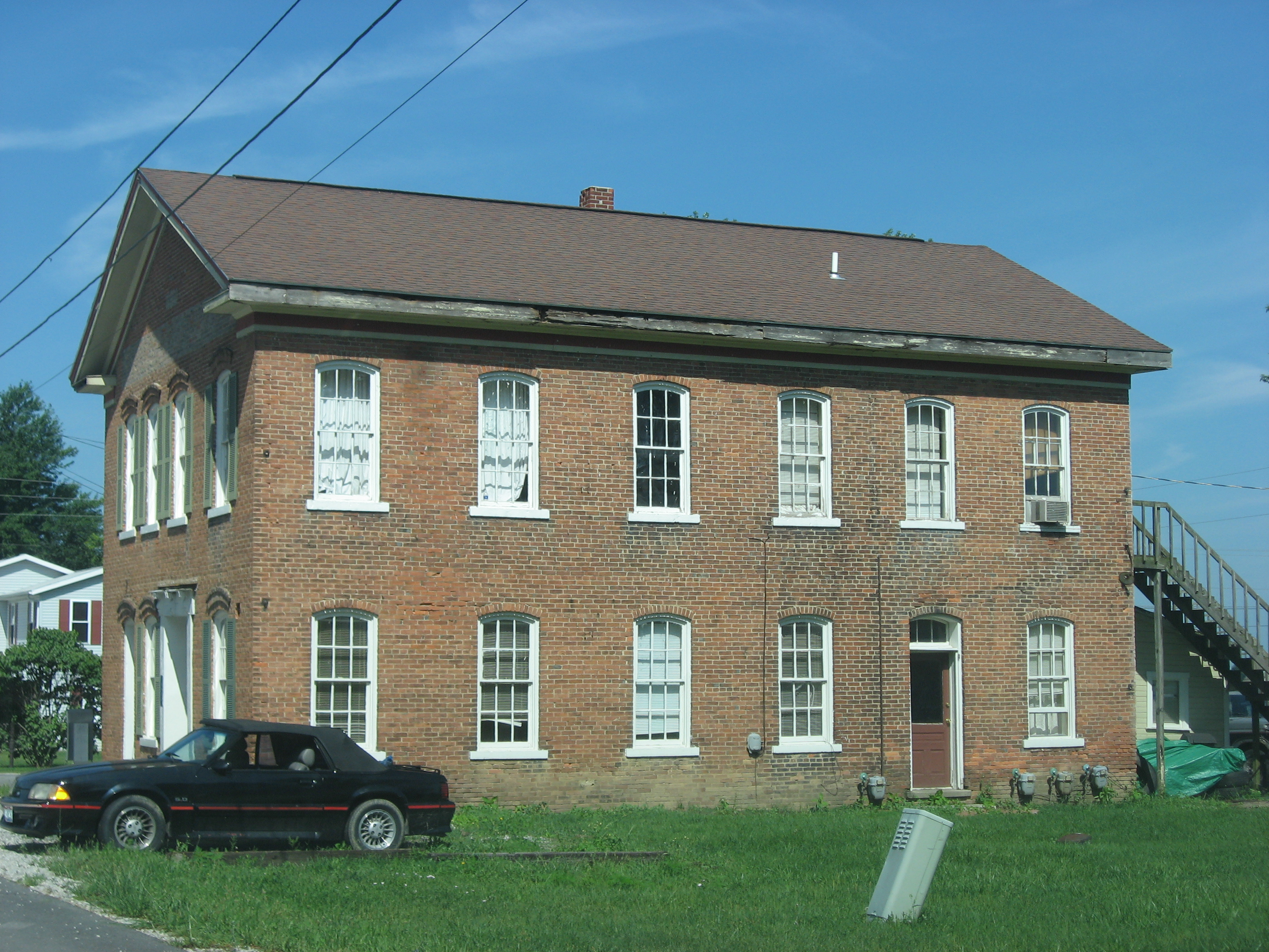 Rear of an old house on the northeastern corner of the intersection of Center and Walnut Streets in Saint Johns, Ohio, United States.